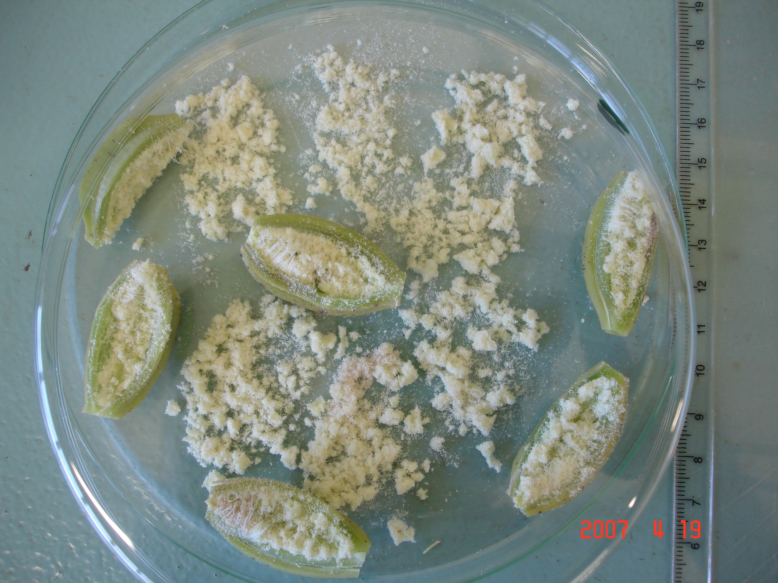 Cattleya walkeriana - seeds